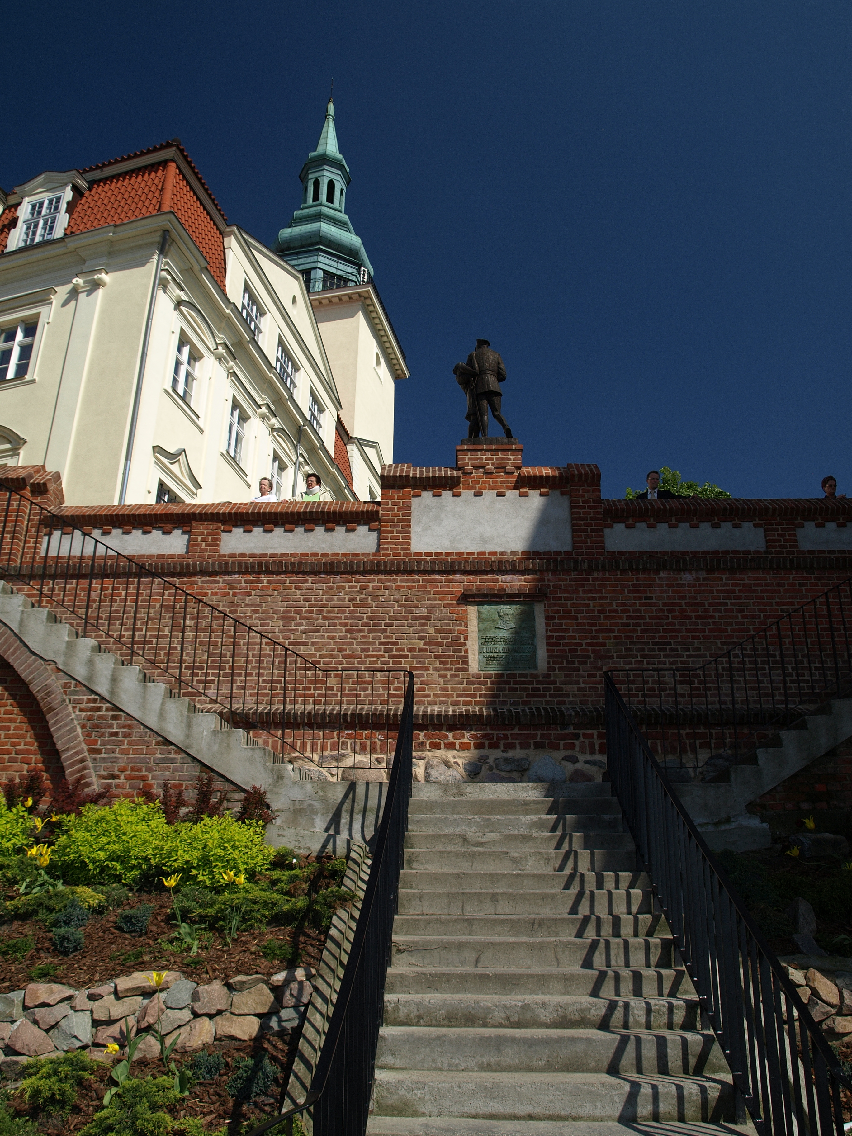 Widok na ratusz w Grudziądzu od strony zejścia nad Wisłę